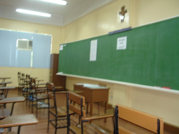 Blessed Angelo of Acri (2010-2011) classroom